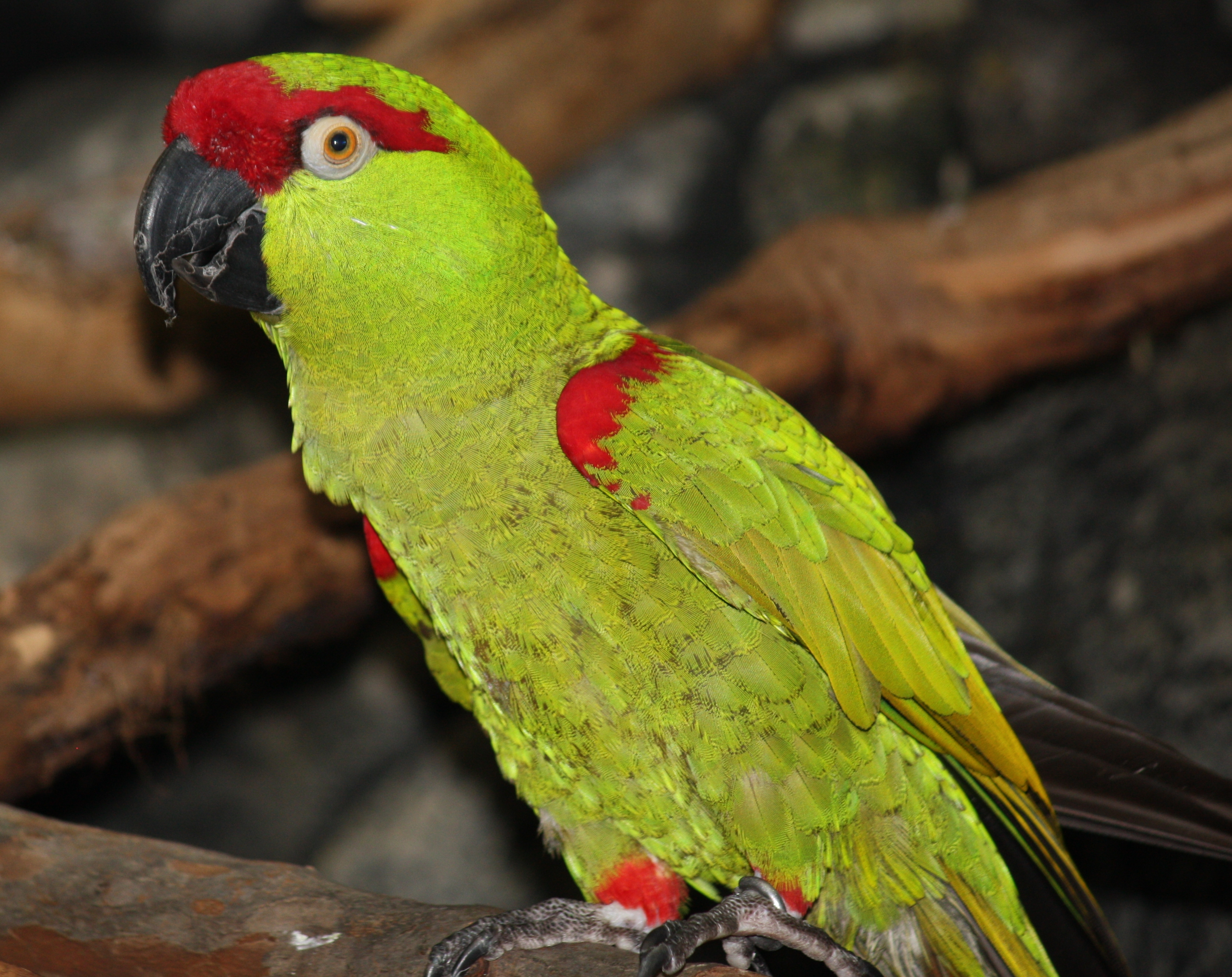 Thick-billed Parrot Rhynchopsitta pachyrhyncha at Cincinnati Zoo